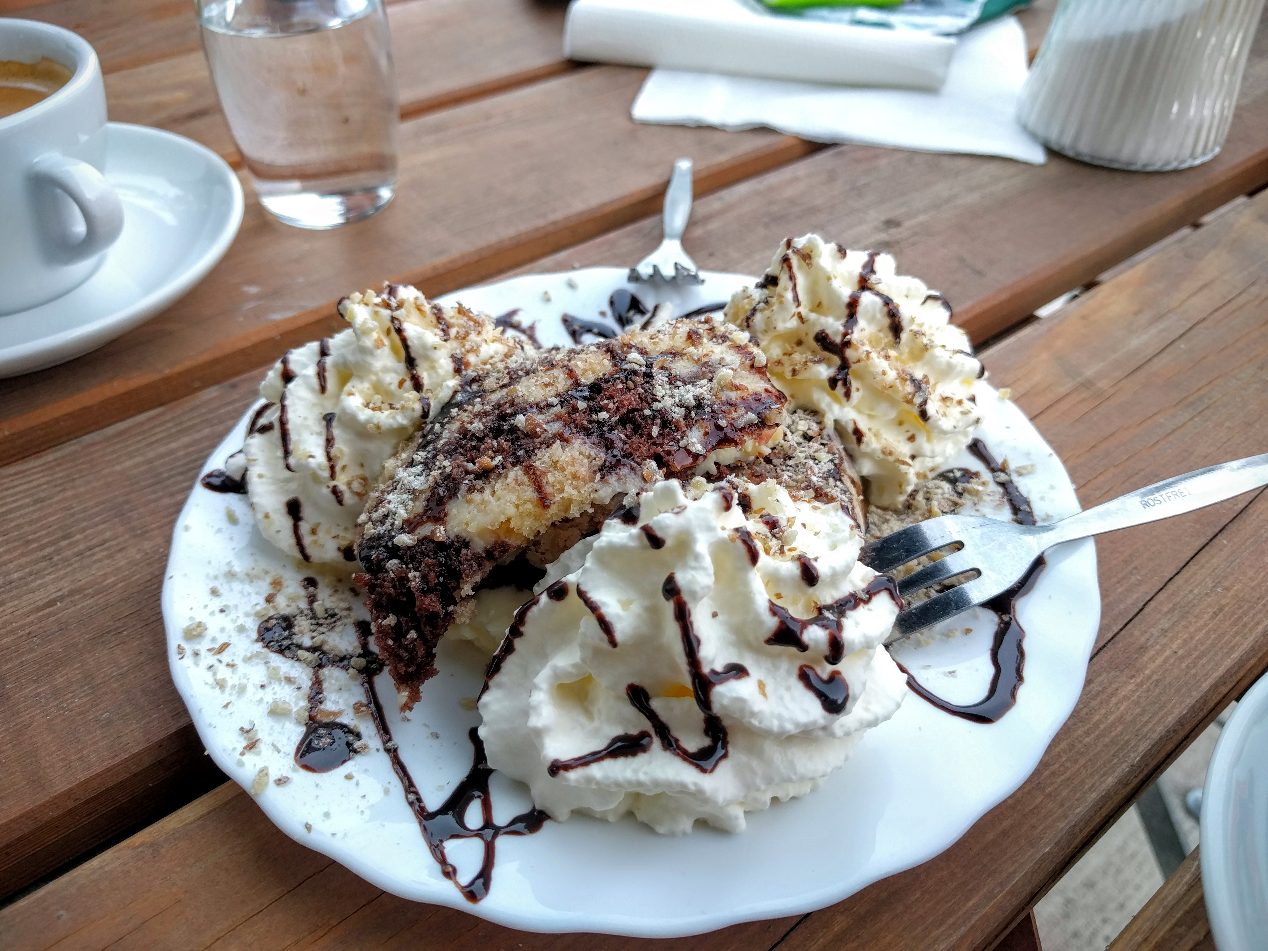 A typical hungarian dessert, made out of biscuit and vanilla cream